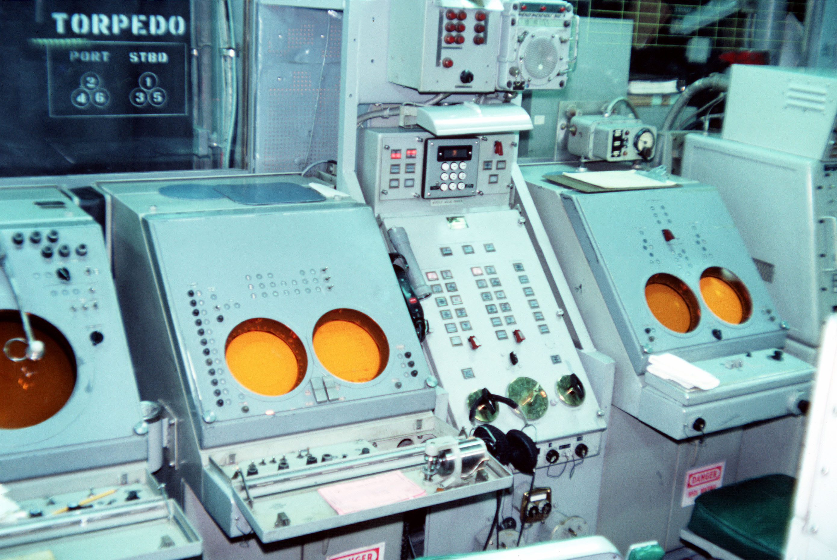 A view of the Tartar guided missile systems control console in the combat information center aboard the guided missile destroyer USS RICHARD E. BYRD (DDG 23). Location: NORFOLK, VIRGINIA (VA) UNITED STATES OF AMERICA (USA)